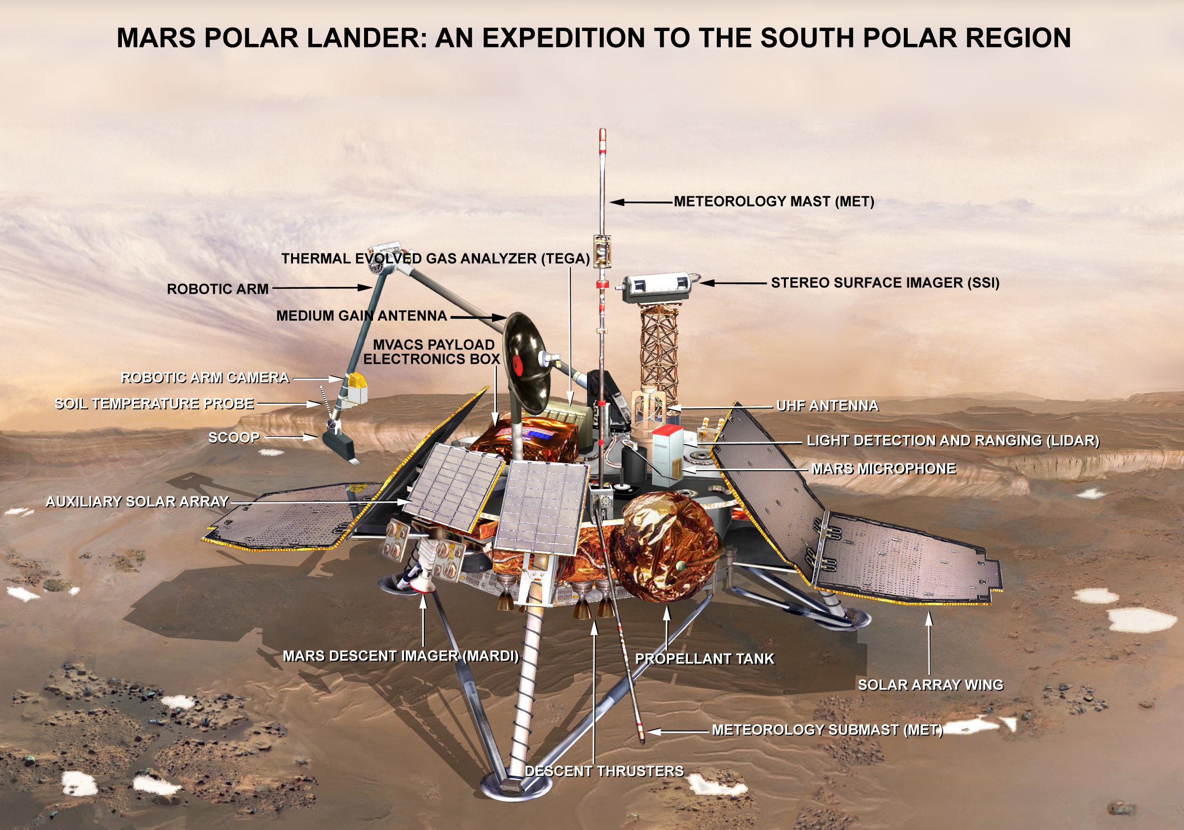 Labelled illustration of the Mars Polar Lander.